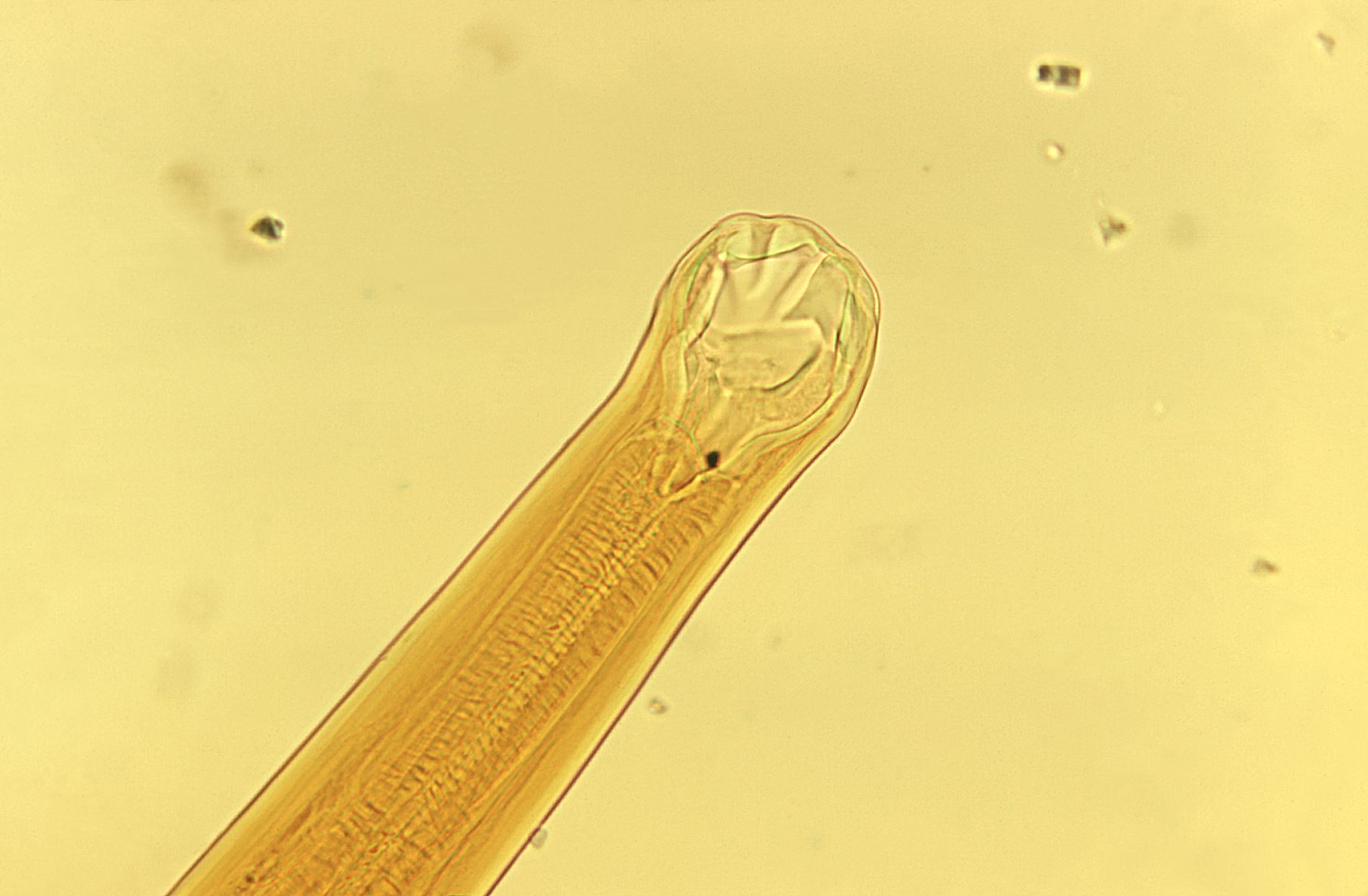 Ancylostoma braziliense mouth parts. Hookworm, parasite.